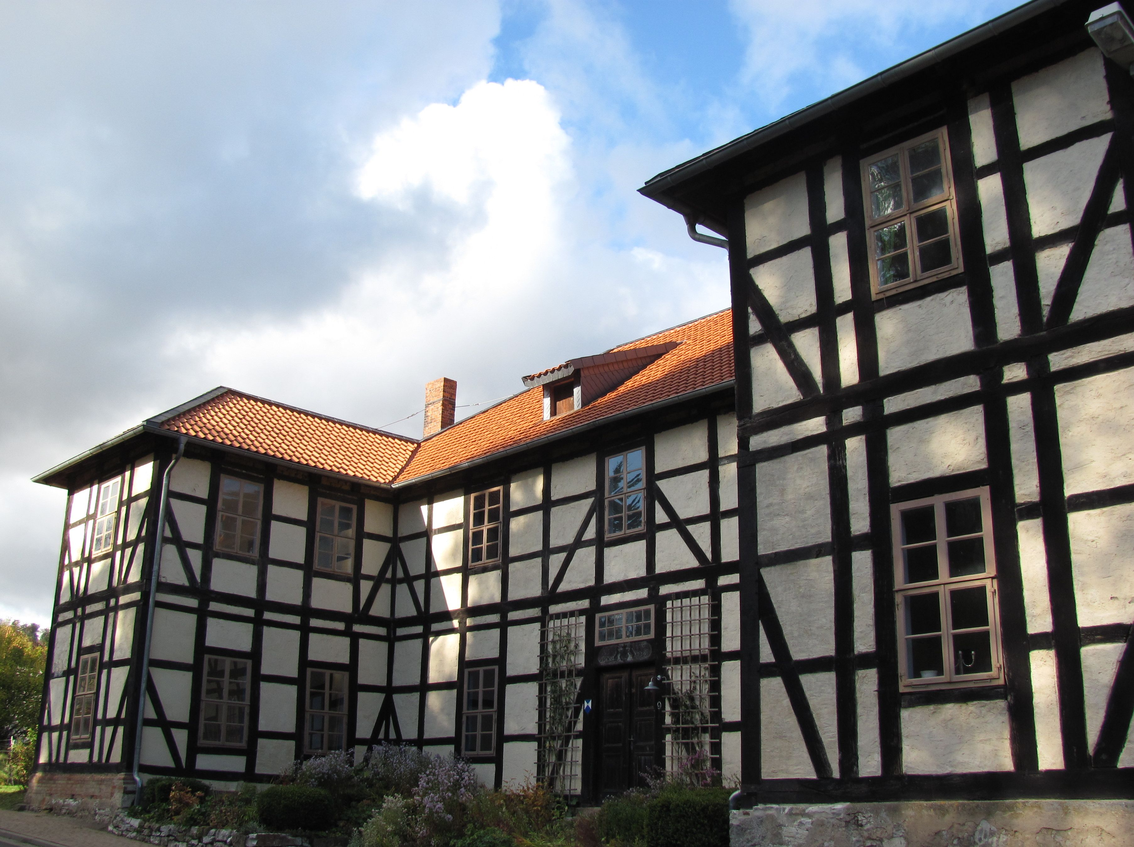 Fayence manufactory, Wrisbergholzen near Hildesheim, Lower Saxony, Germany